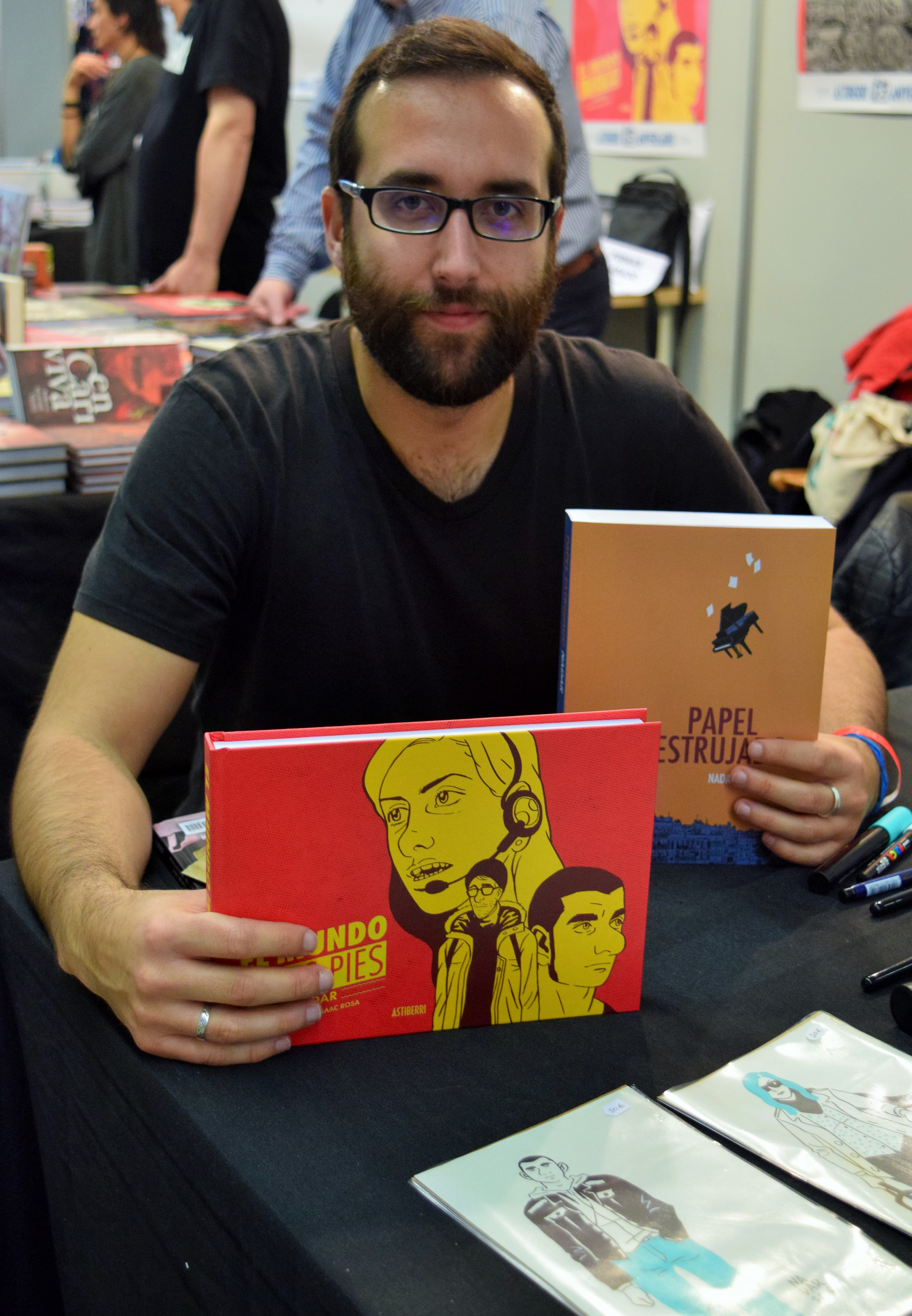 The comic writer Nadar showing his 2 comics El mundo a tus pies and Papel estrujado at the Barcelona International Comic Convention, 2016.f